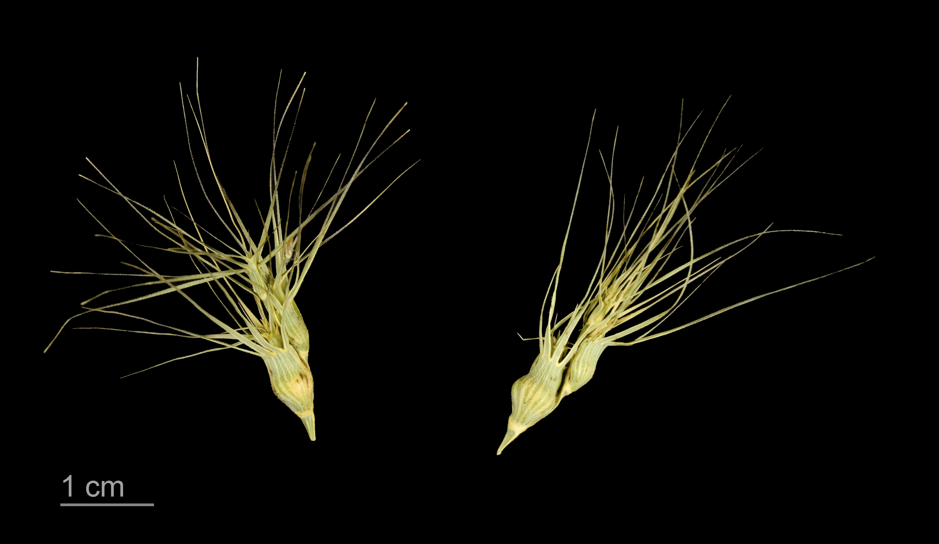 ovate goatgrass, fruits and seeds